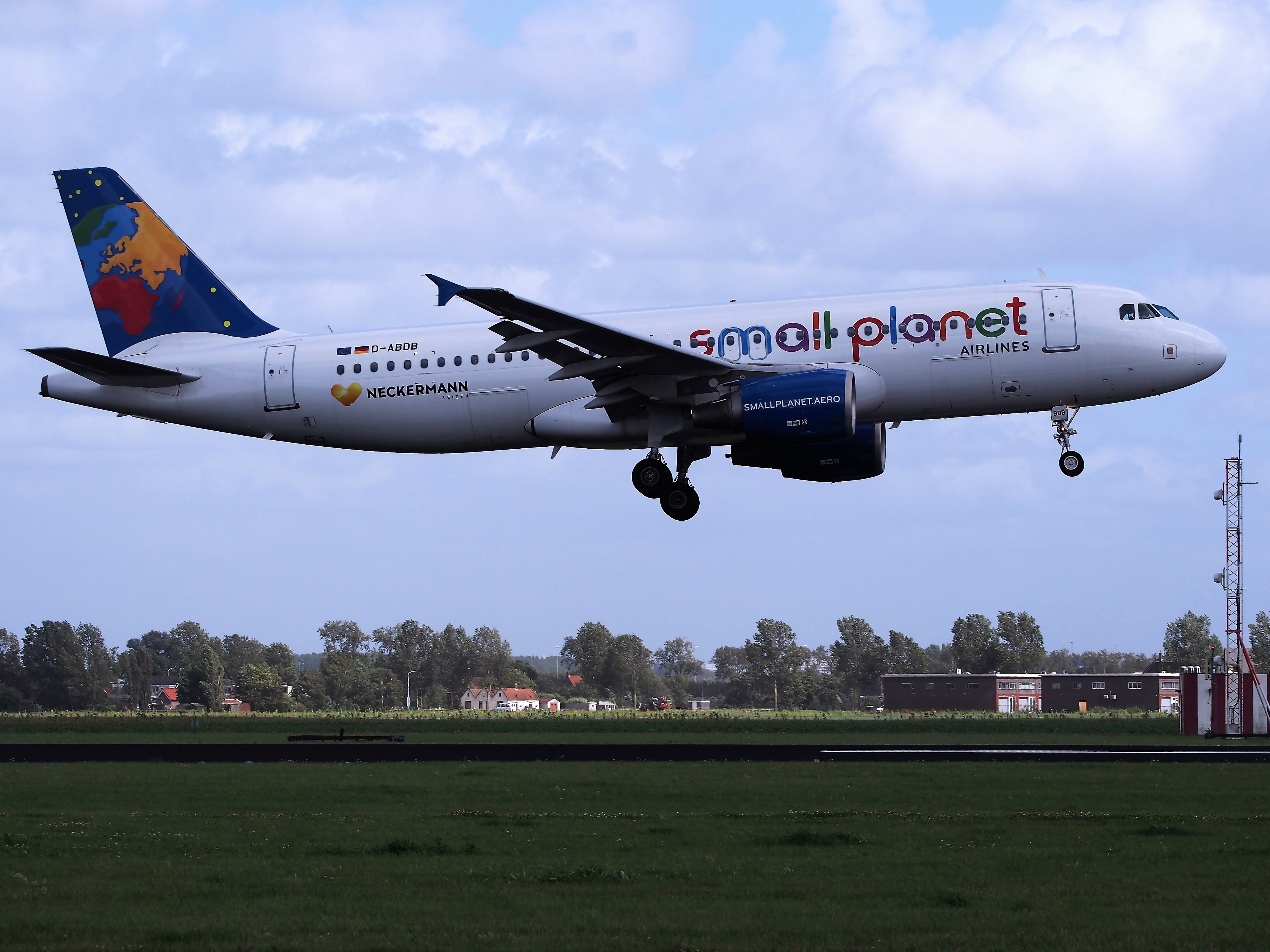 Photographed at Amsterdam, The Netherlands.